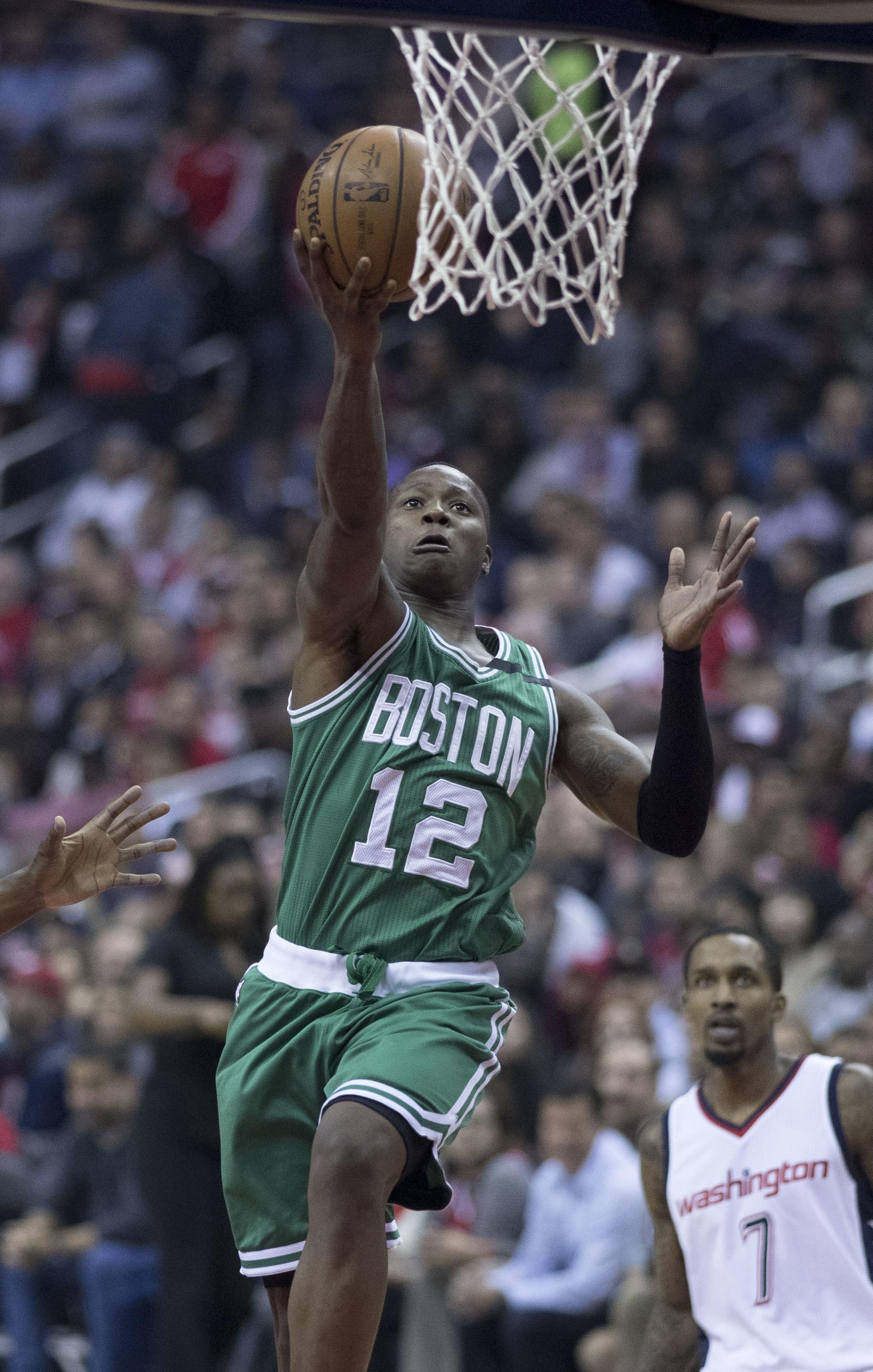 Celtics at Wizards 5/12/17